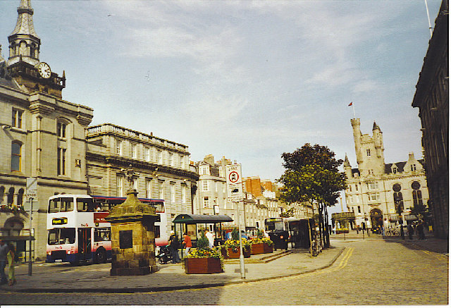 Tolbooth, Castlegate and Citadel. Castlegate is the old market place of Aberdeen, with markets held since the 12th Century. Gate derives from the Norse "gatan" for street and is a common term in Scotland and northern England. The castle is long gone.